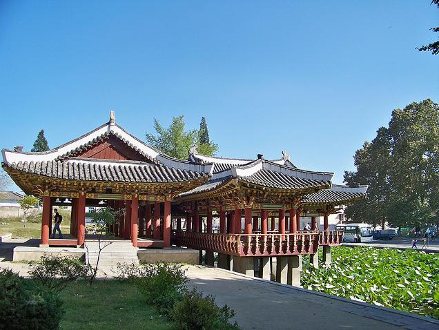 Buyong Pavilion, Haeju City, North Korea.